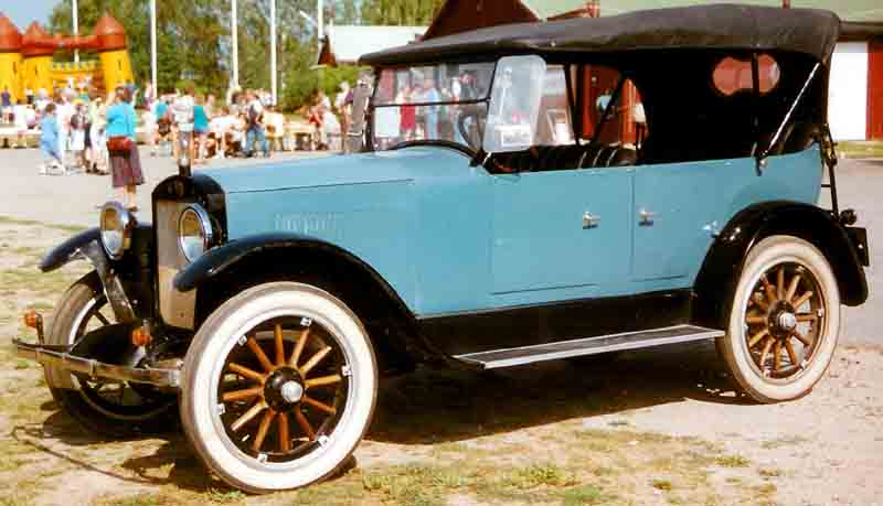 Cleveland Six Model 40 Touring 1920